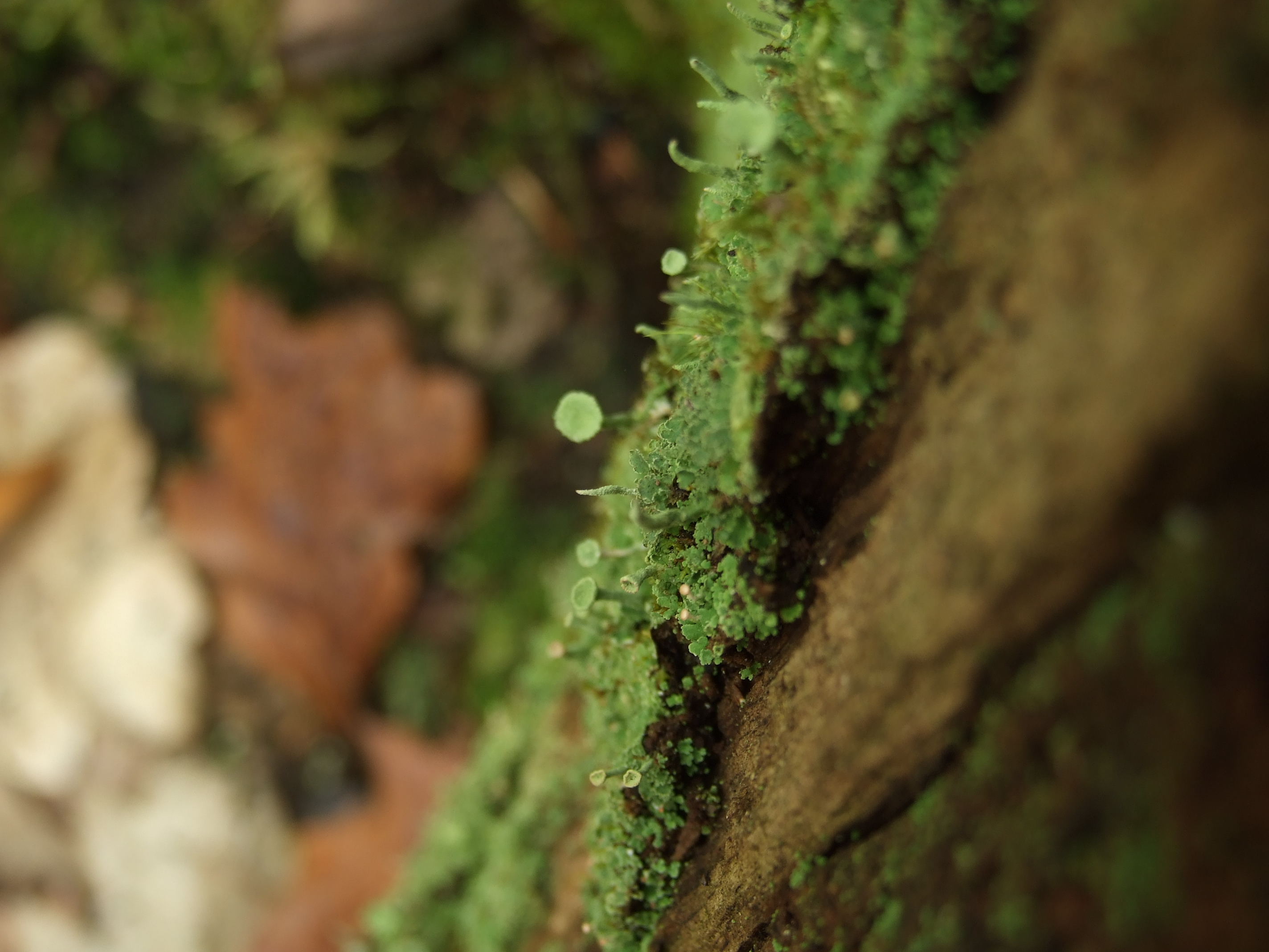 Klánovice Forest-eastern part, Prague, CZhelp